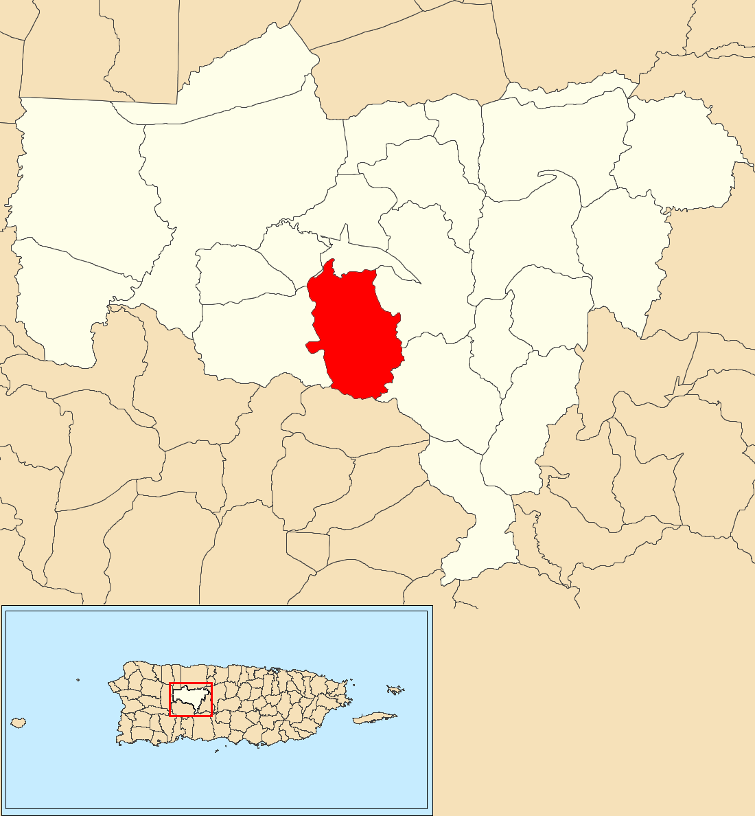 Arenas, Utuado, Puerto Rico locator map scale is 102,000